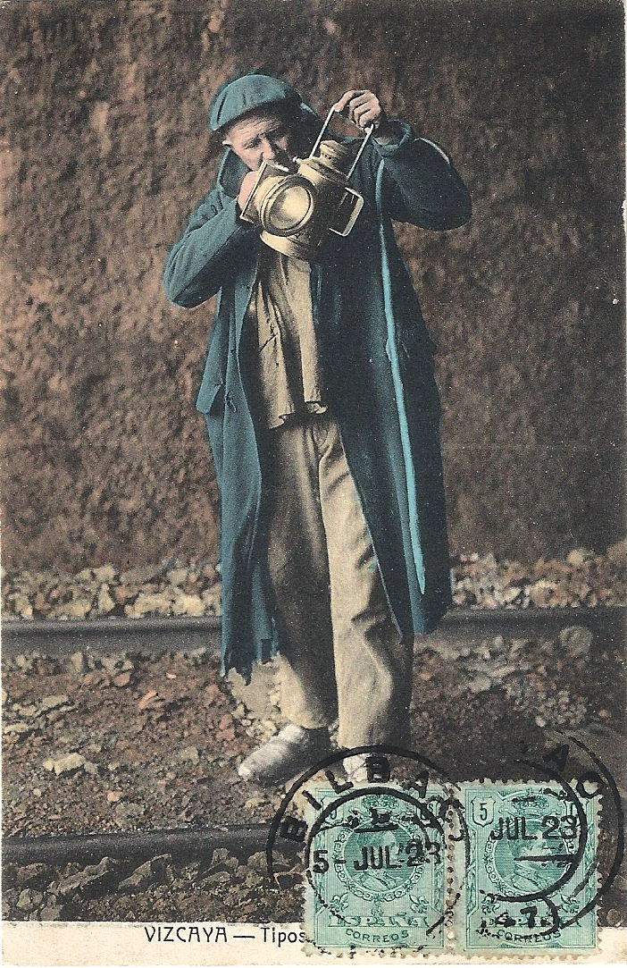 Railroad worker, with a signal lamp on a railroad track in Vizcaya, Spain. Phototype postcard printed and hand colored. With postage stamps of Spain, King Alfonso XIII, postmarked on July 5, 1923.